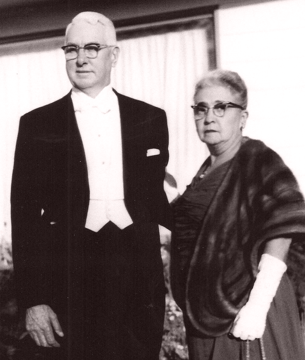 “The Breeze that blew the Shipp along”